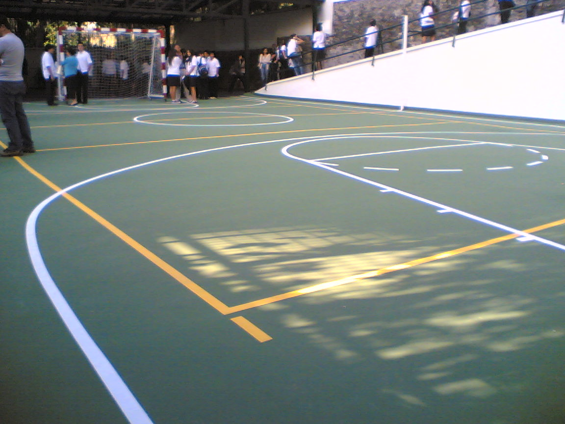 The first day of school of italyan lisesi